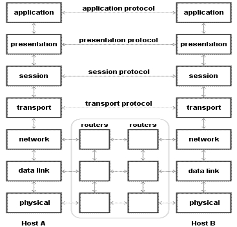 ISOOSI Reference model Schematic diagram